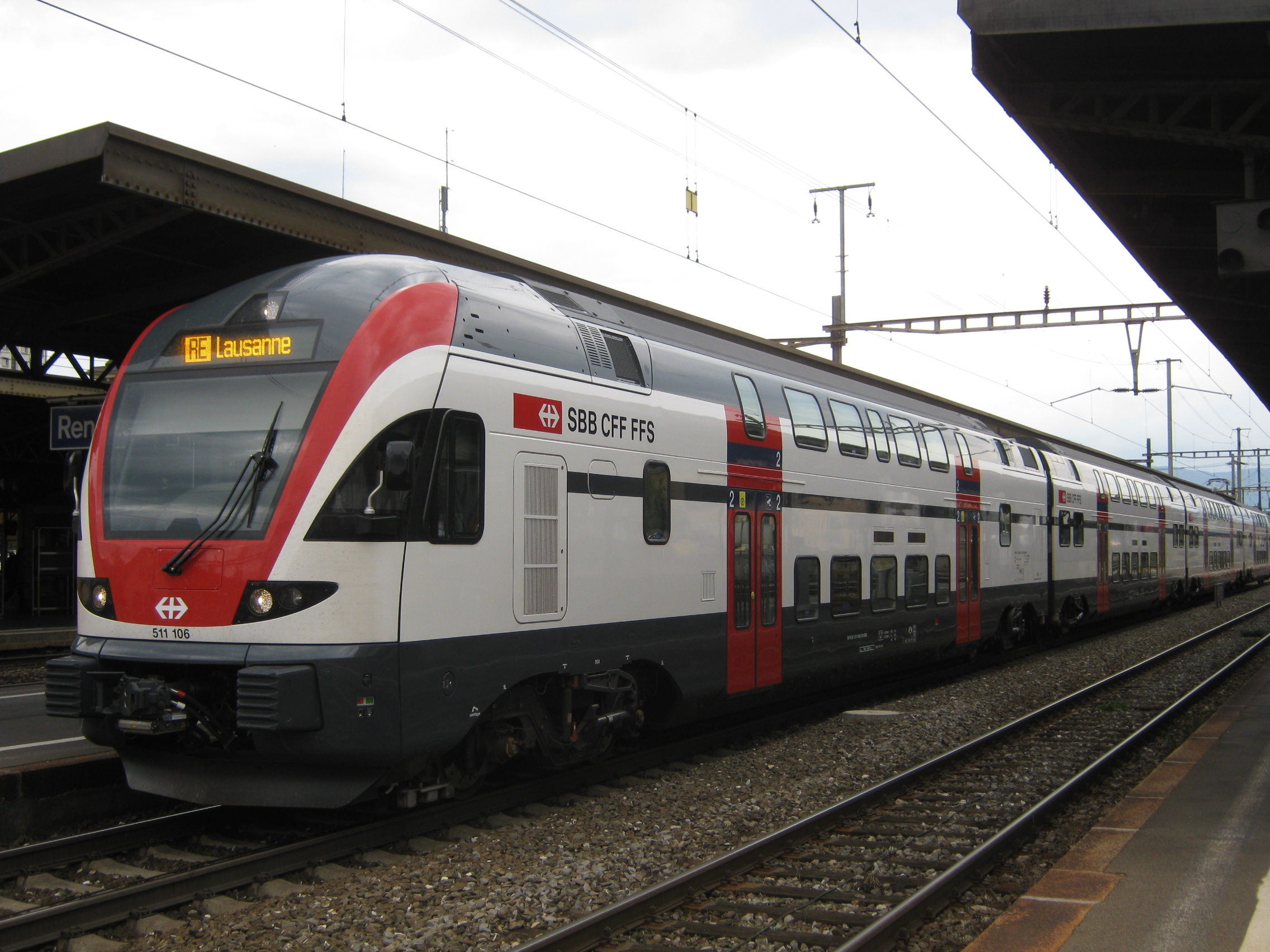 The double-deck regional train RABe 511 "KISS" in Renens. Front View